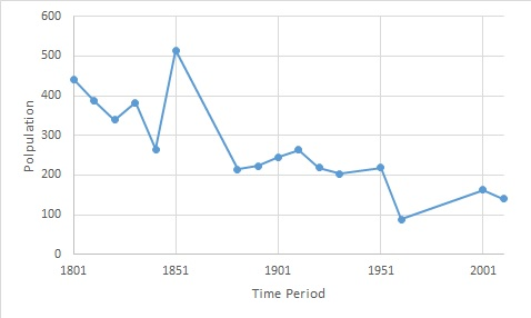 Population of Shipmeadow based on Census data